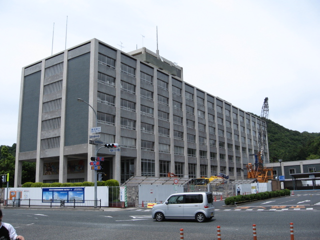 Tottori Prefectural government this public office building.